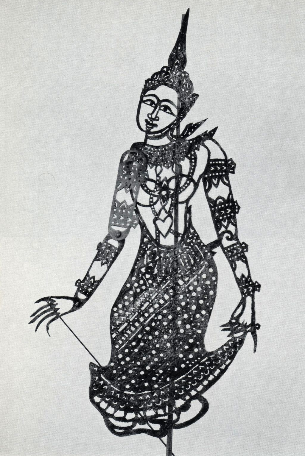 Nang talung, Nang Sida